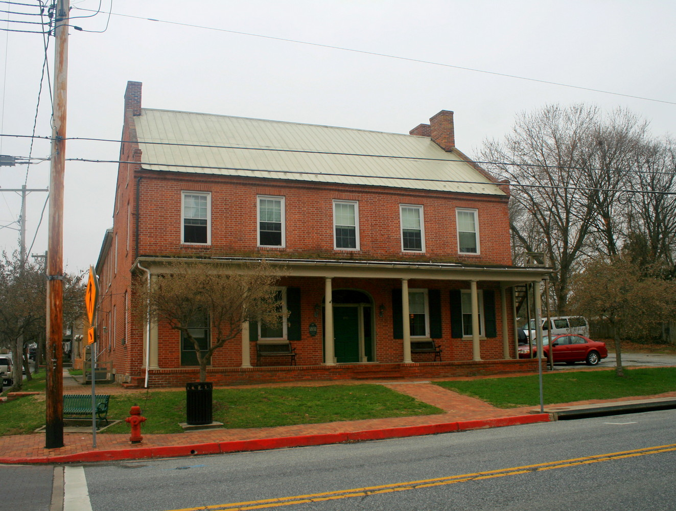 Jacob H. Grove House (The meeting place of Robert E. Lee and his generals on the night of September 17, 1862), 100 West Main Street, Sharpsburg, Maryland